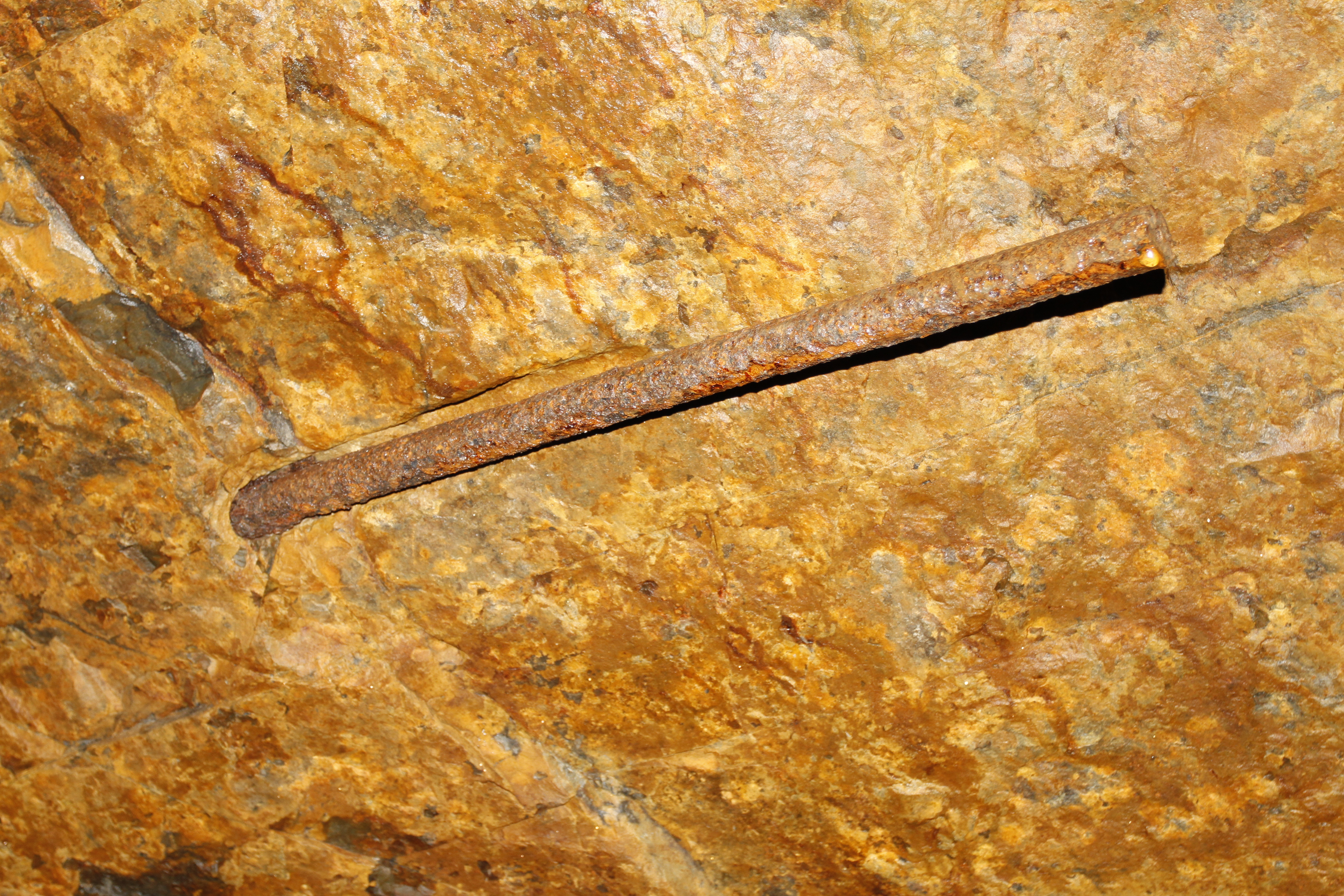 Matsushiro Underground Imperial Headquarters,Zouzan Underground Shelter